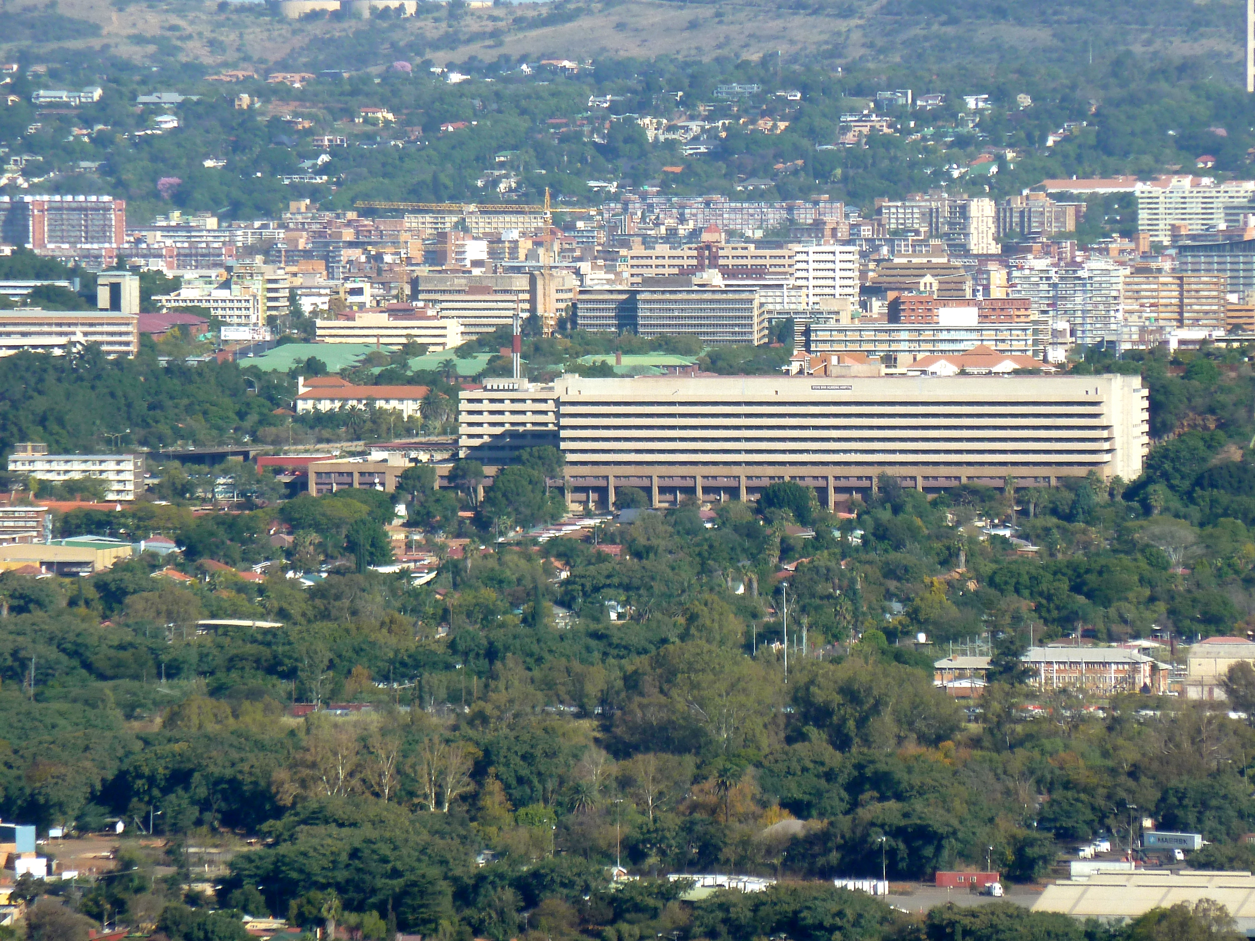 Steve Biko Academic Hospital in Prinshof 349-Jr, Pretoria. The red roofs of the Tshwane District Hospital can be seen right behind it.